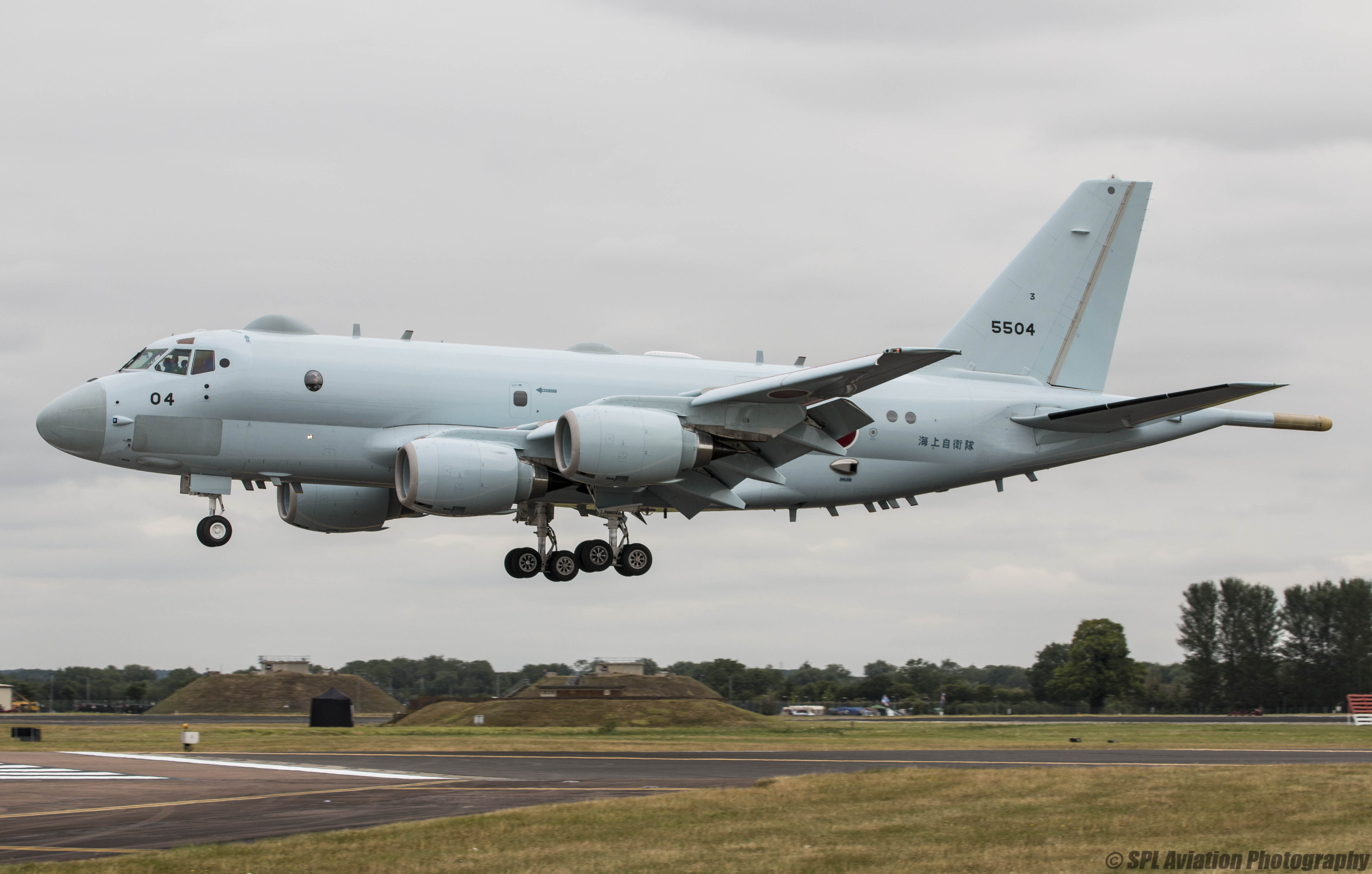 Royal International Air Tattoo 2015 - Kawasaki P-1 - Japan Maritime Self-Defence Force - 5504